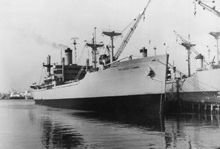 USNS Archer T. Gammon (T-AK-243) moored pierside, date and location unknown.